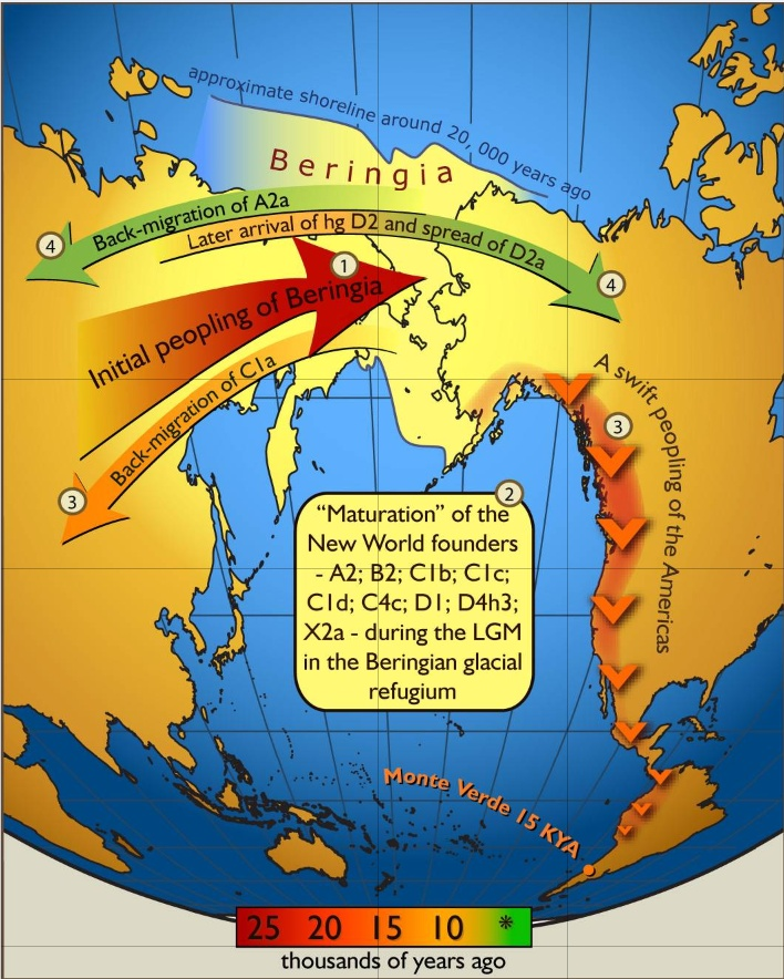 Map of gene flow in and out of Beringia, according to human mitochondrial DNA haplogroups. Colors of the arrows correspond to approximate timing of the events and are decoded in the colored time bar. The initial peopling of Beringia (the region depicted in light yellow) was followed by a standstill after which the ancestors of the Native Americans spread swiftly all over the New World while some of the Beringian maternal lineages (C1a) spread westwards. More recent genetic exchange (shown in green) is manifested by back-migration of A2a into Siberia and the spread of D2a into north-eastern America that post-dated the initial peopling of the New World.